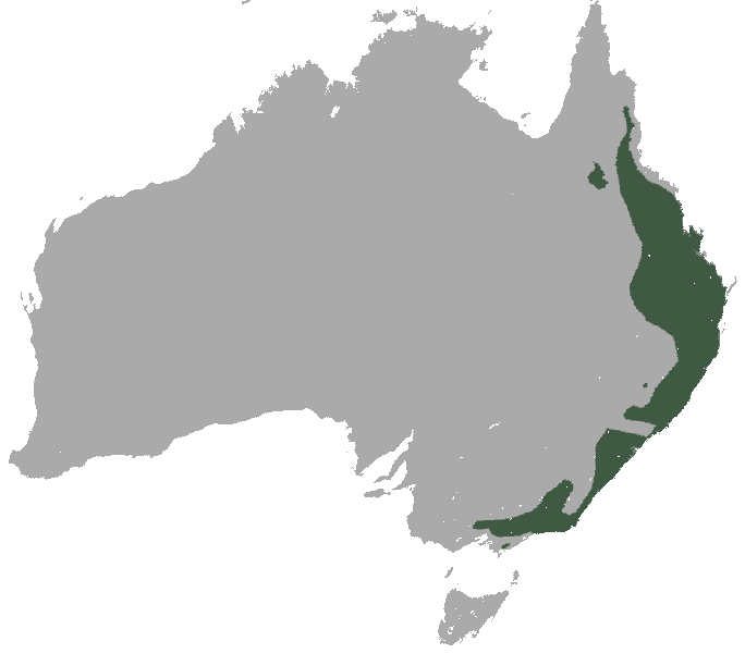 Greater Glider (Petauroides volans) range